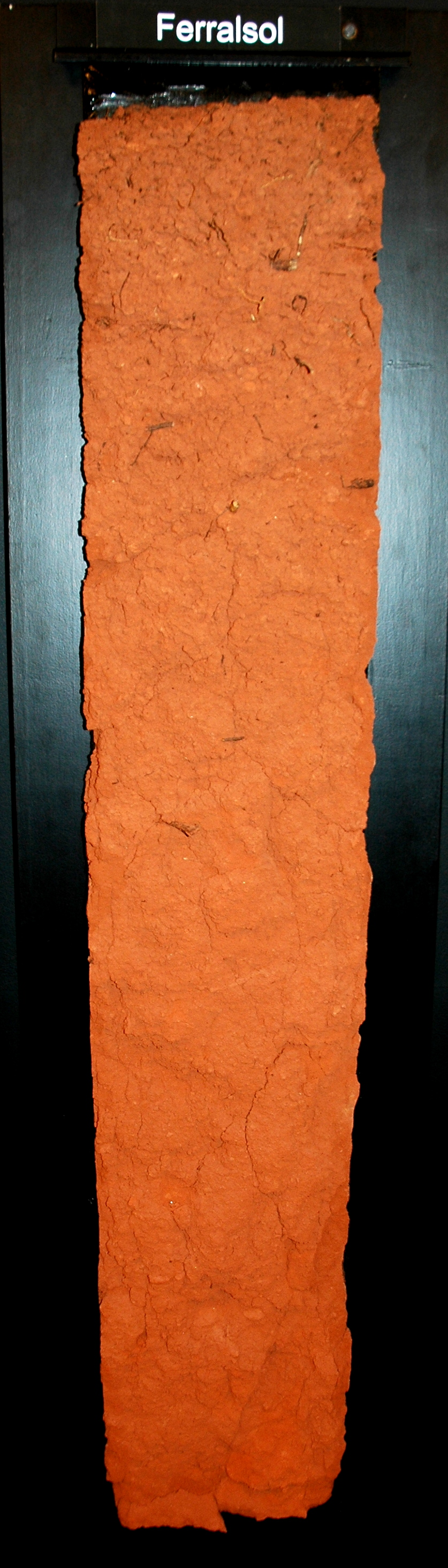 Soil profile of a Ferralsol